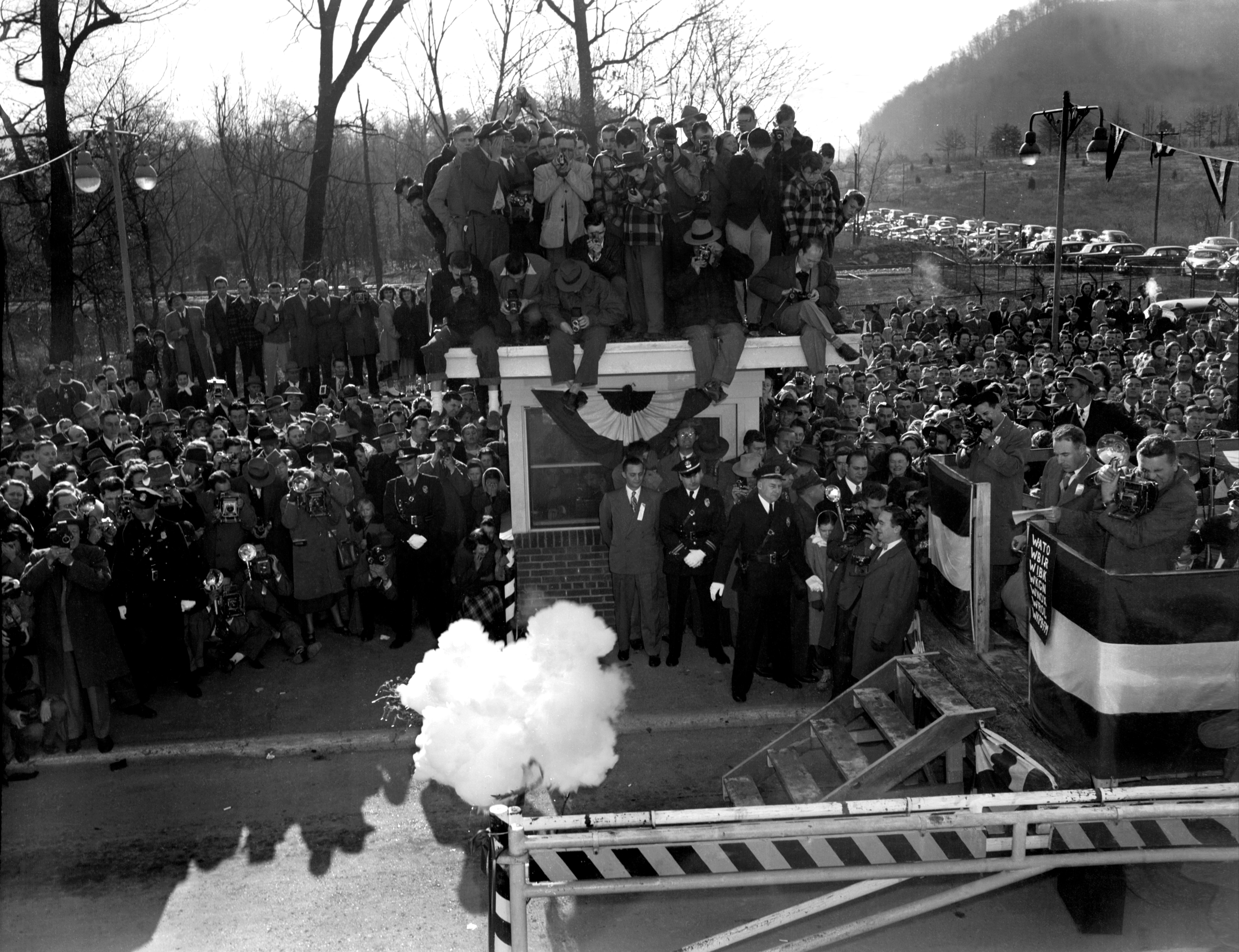 Gate opening celebration. Elza Gate, Oak Ridge, Tennessee.